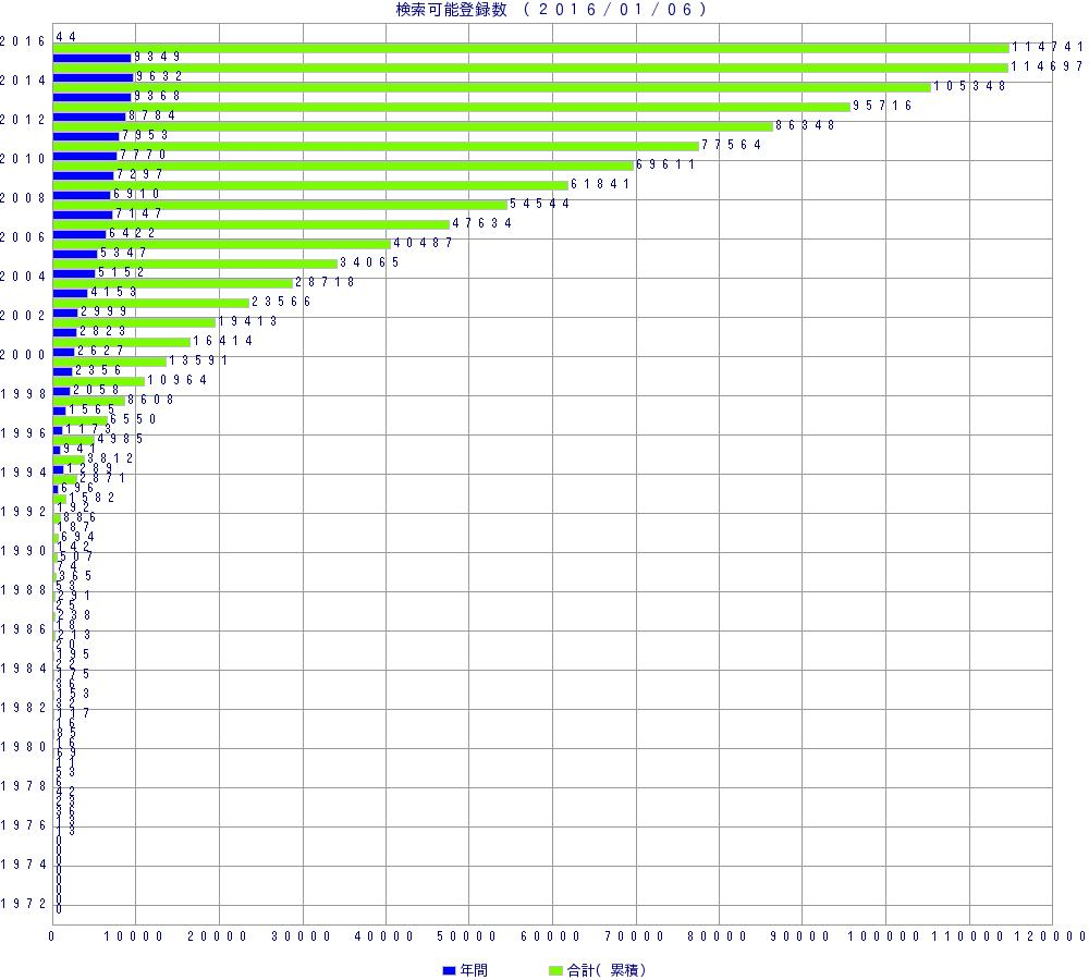 Number of searchable structures in PDB